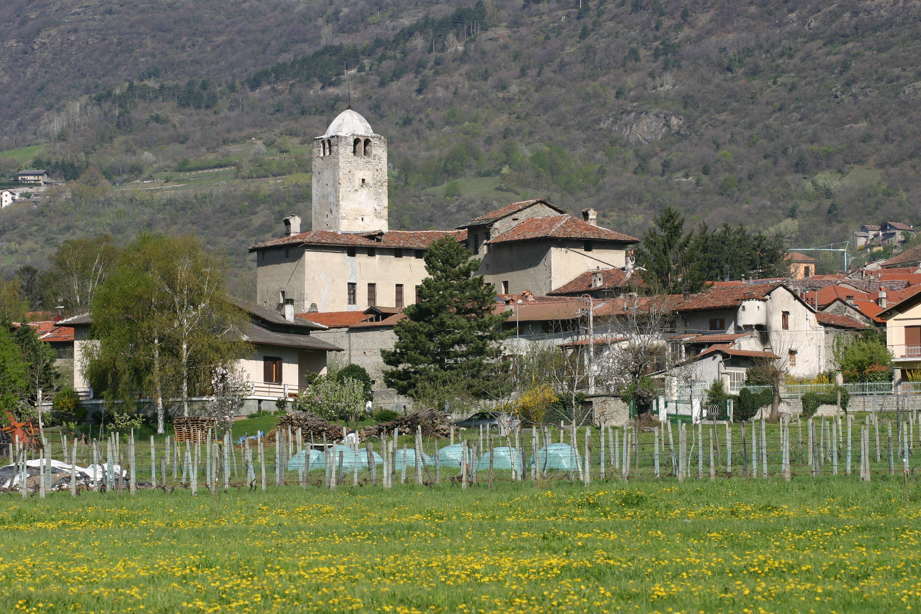 Bruzolo's Castle